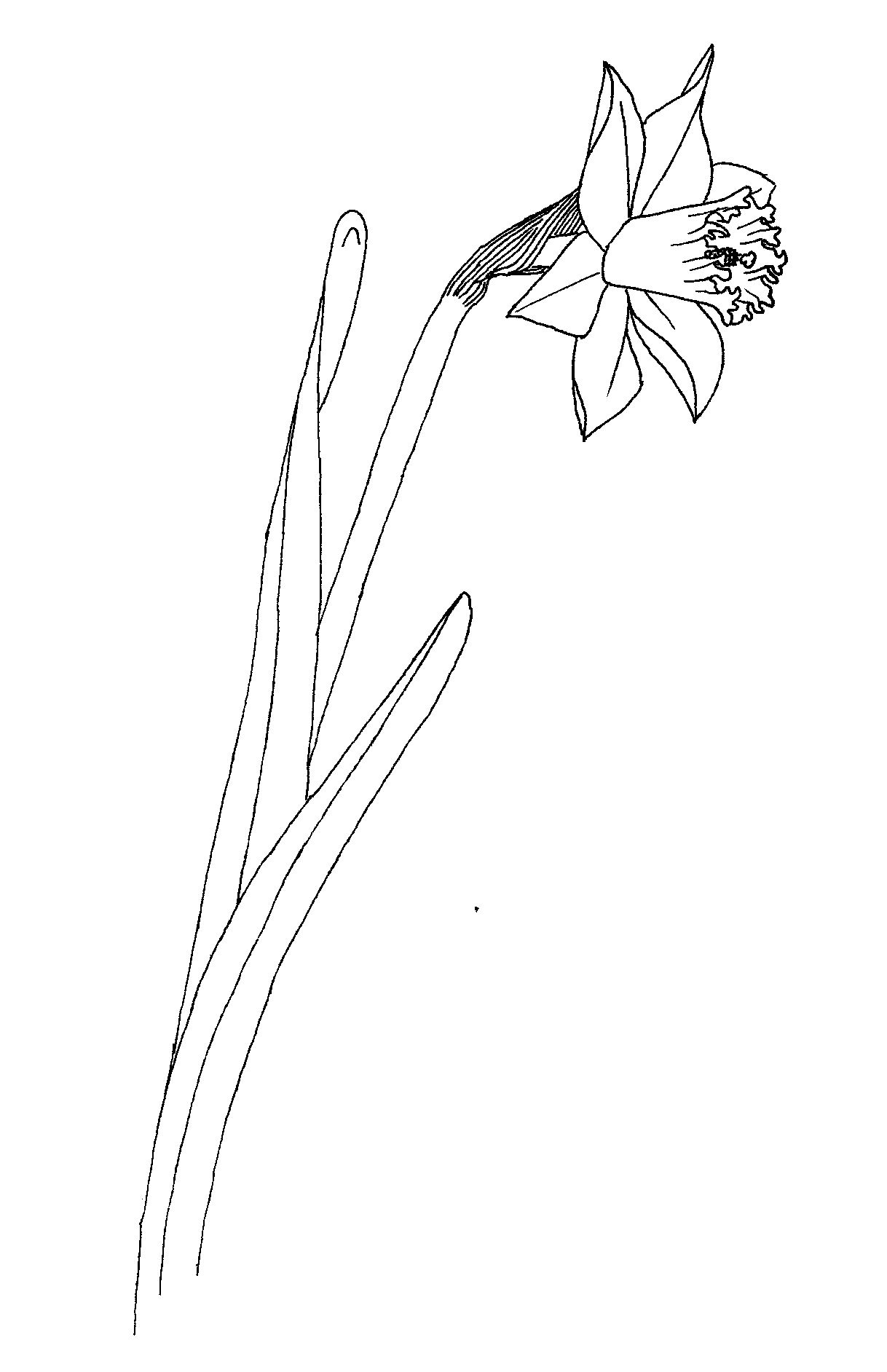 Narcissus hispanicus (from plant shop) Gele narcis Pendrawing on paper by Elly Waterman Pentekening op papier door Elly Waterman January 17, 1977